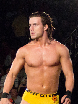 Adam Cole prior to his match at Ring of Honor's Showdown in the Sun pay-per-view on March 31, 2012. Cropped from original.